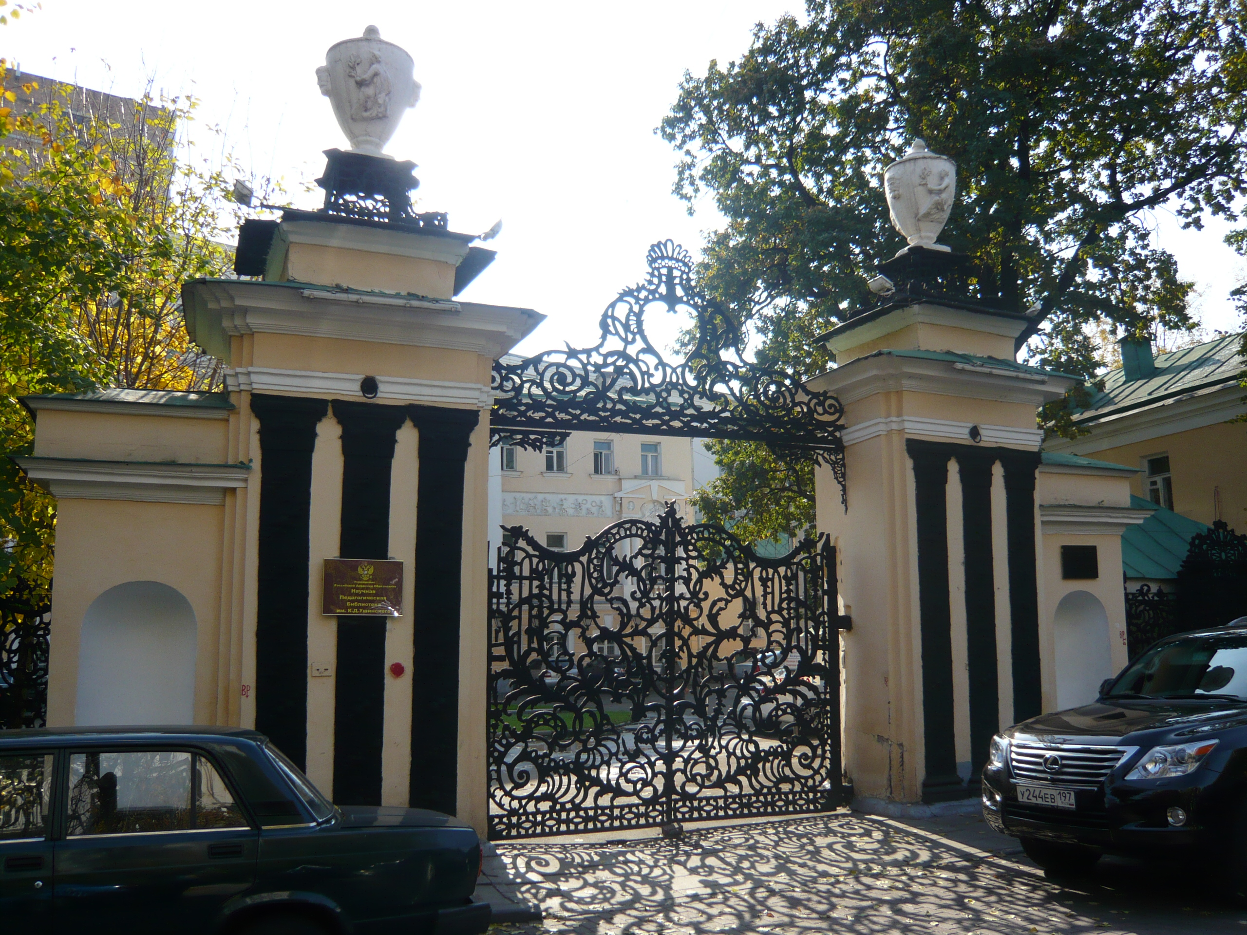 The foundry iron gate of the Ushinsky State Scientific Pedagogical Library in Bolshoy Tolmachevsky Lane. Moscow